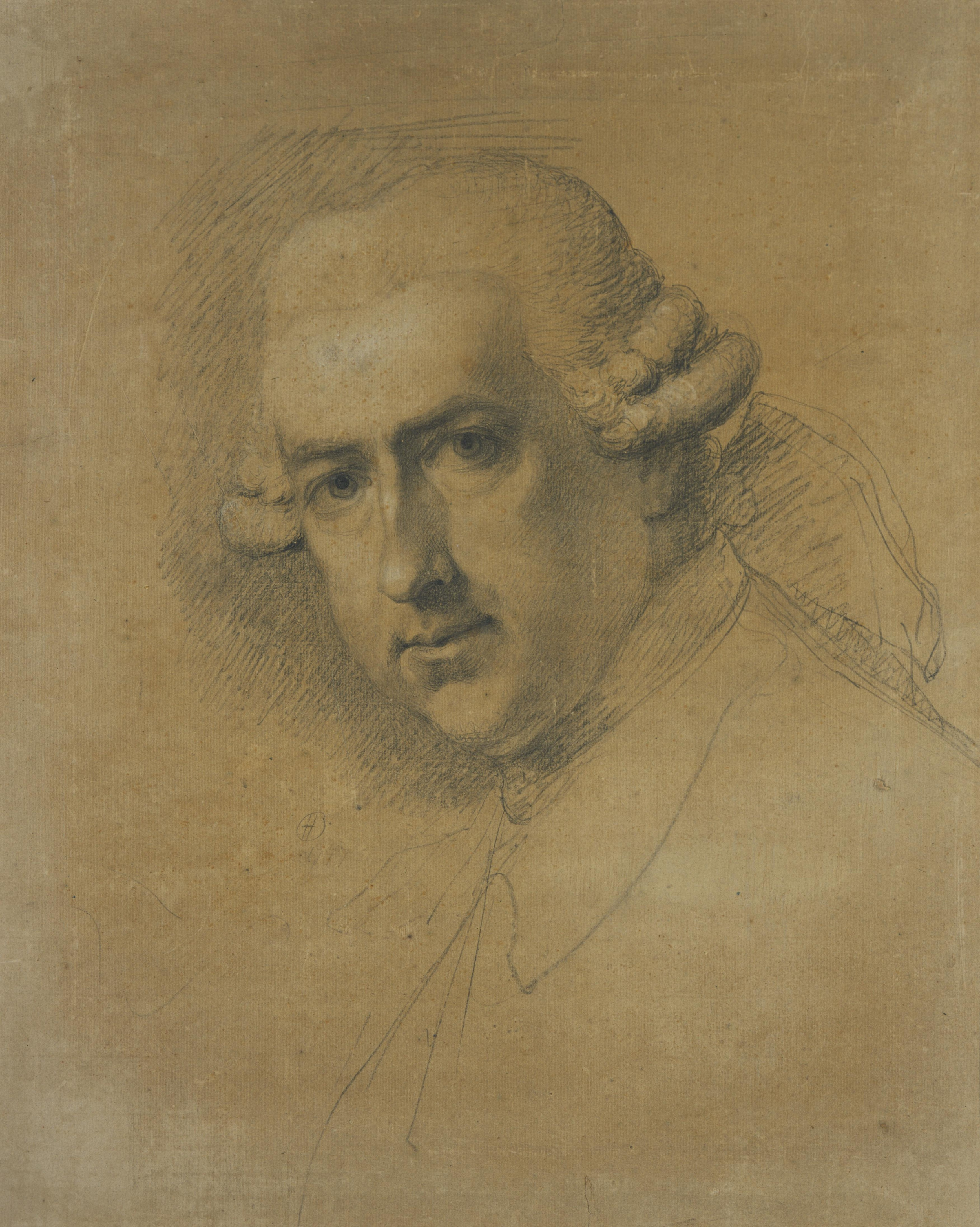 Previously thought to be a self-portrait of Gavin Hamilton, this drawing has since been identified as a work by Ozias Humphry of 1777. Hamilton spent most of his life in Rome where he worked as an artist, his style influenced by the antiquities that surrounded him. In addition to painting, he dealt in classical statuary, much of which he excavated himself. Between 1758 and 1777 he worked on a grand scheme of six large history paintings, their subjects inspired by Homer's Iliad, two of which are now in the collection of the National Galleries of Scotland. Through his own art, his antiques dealing and his assistance to young artists, Hamilton became a pivotal figure in the artistic life of Rome in the second half of the 18th century, and helped establish a taste for Neoclassicism in Europe.